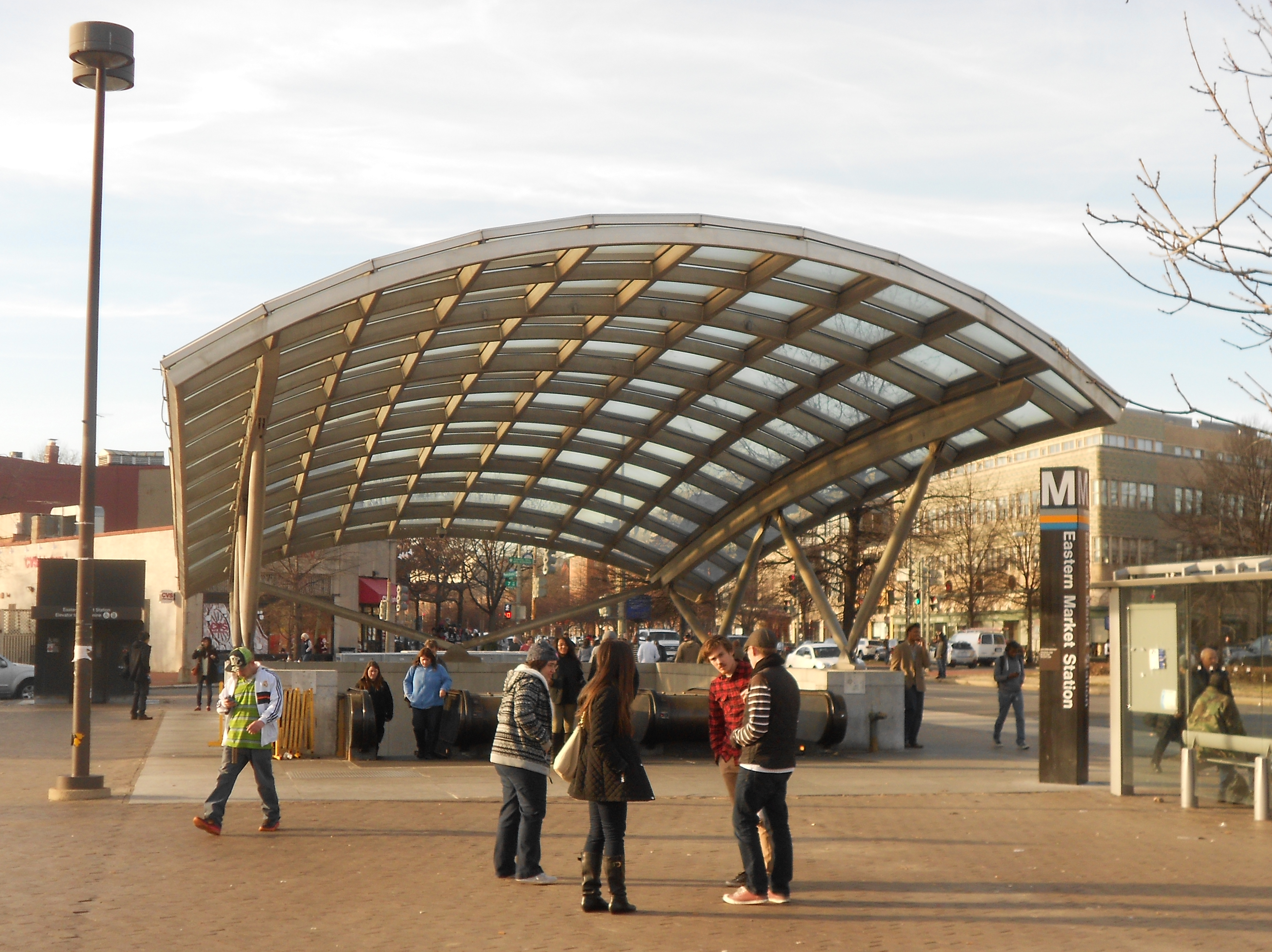 Exterior of Eastern Market Metro station in Washington, D.C., U.S.A.